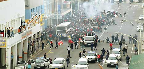 Police attack demo during the 2006 South African security guards strike. Photo: SATAWU